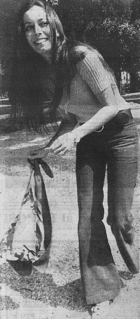 American actress Josephine Chaplin in Villa Borghese, Rome